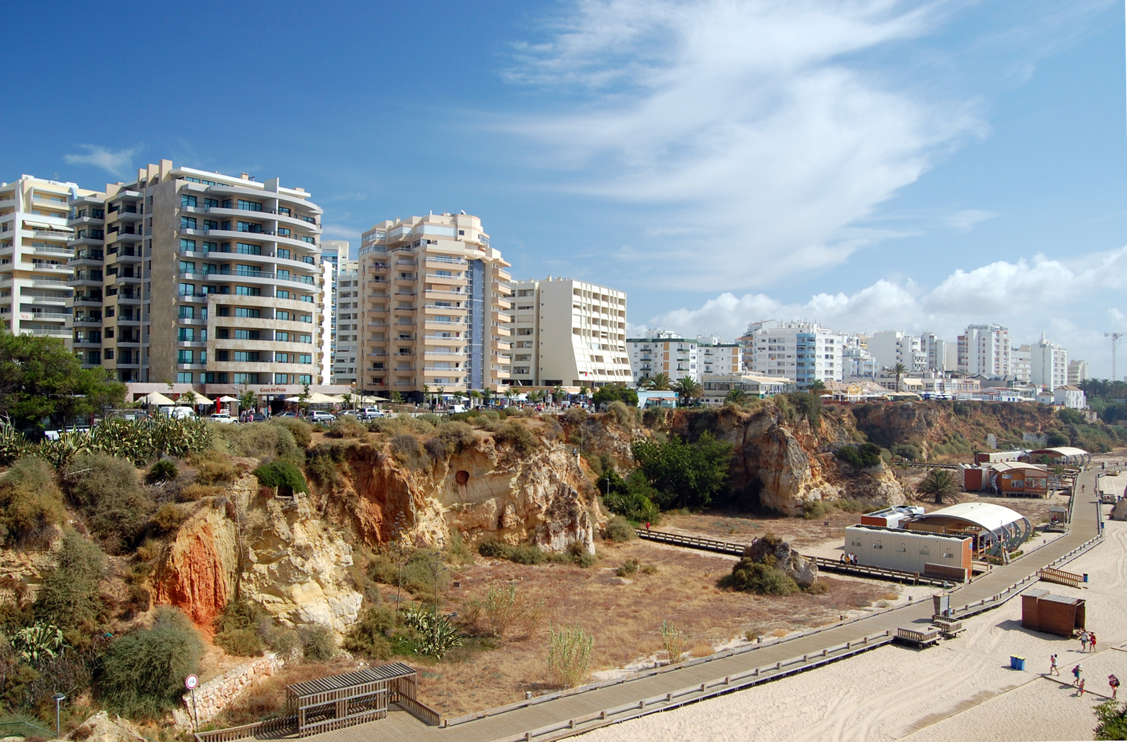 Apartment buildings at Praia da Rocha, Portimão.